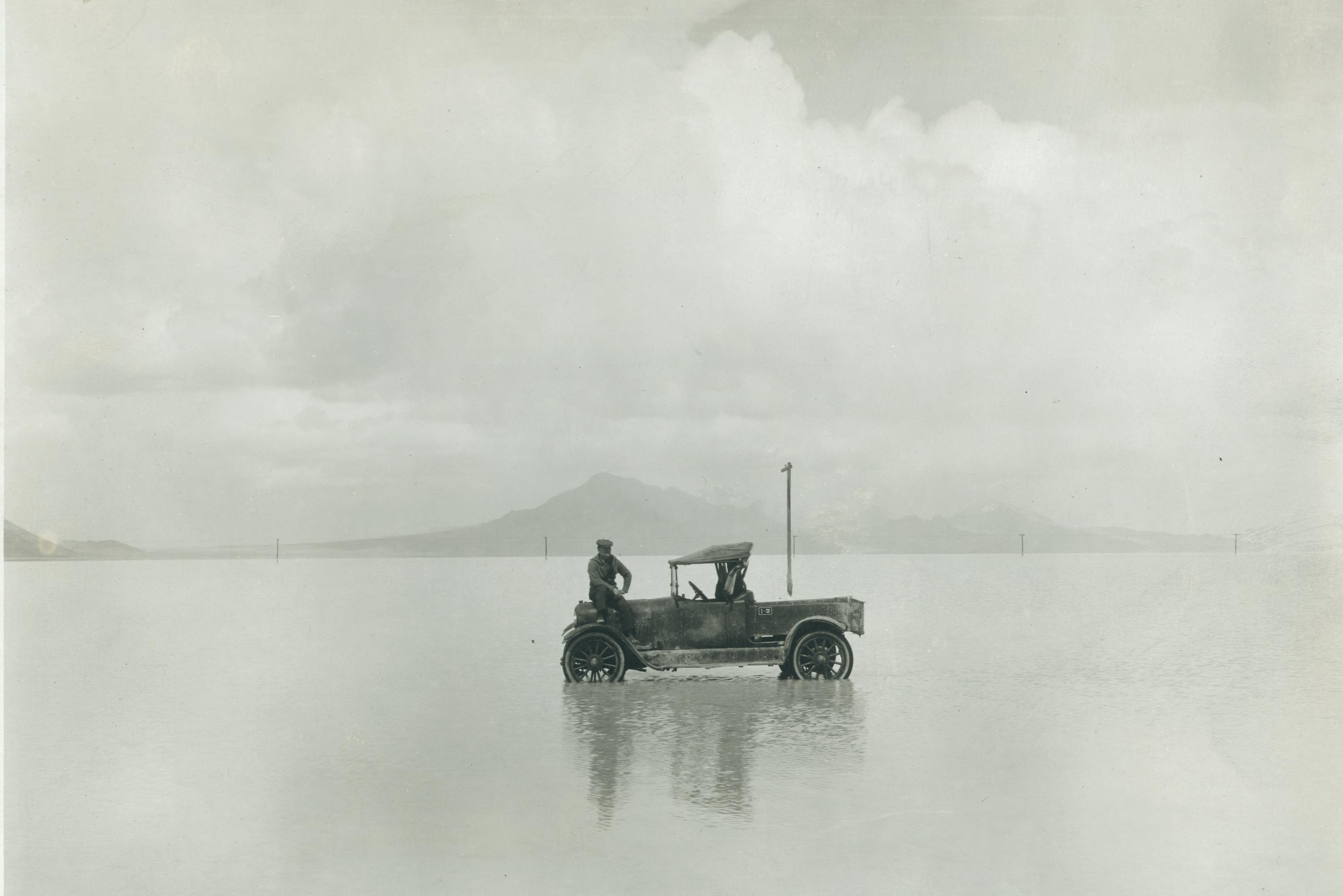 Waiting out the flooding along the Lincoln Highway in Utah along the Wendover Cut-off outside of Wendover, Utah. Original Caption: VICTORY HIGHWAY-WENDOVER ROUTE Condition of Highway between grades Water during the wet season and salt formation during the dry season approximately eight miles